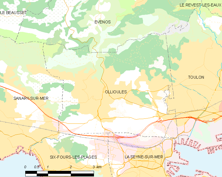 Map of French municipality Ollioules